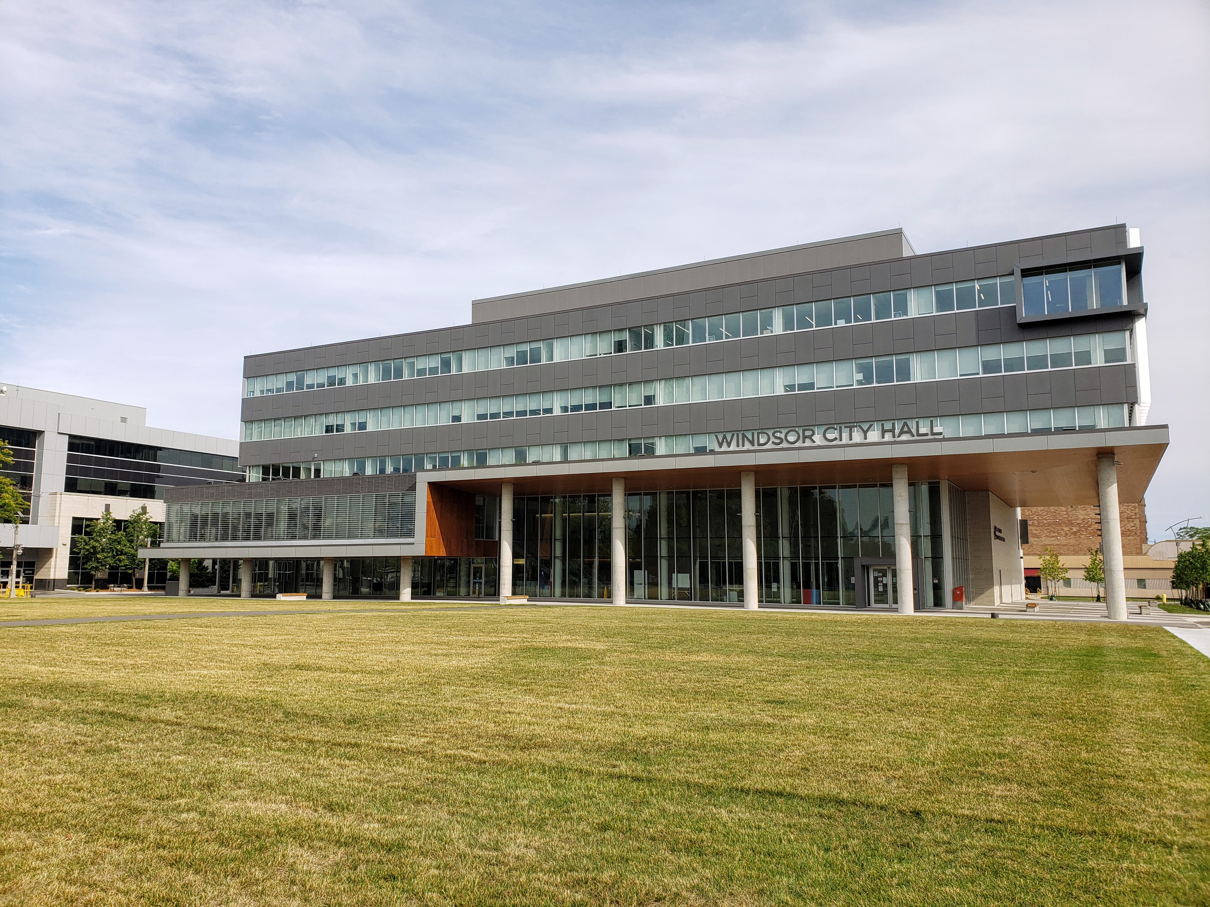 City hall of Windsor, Ontario, Canada